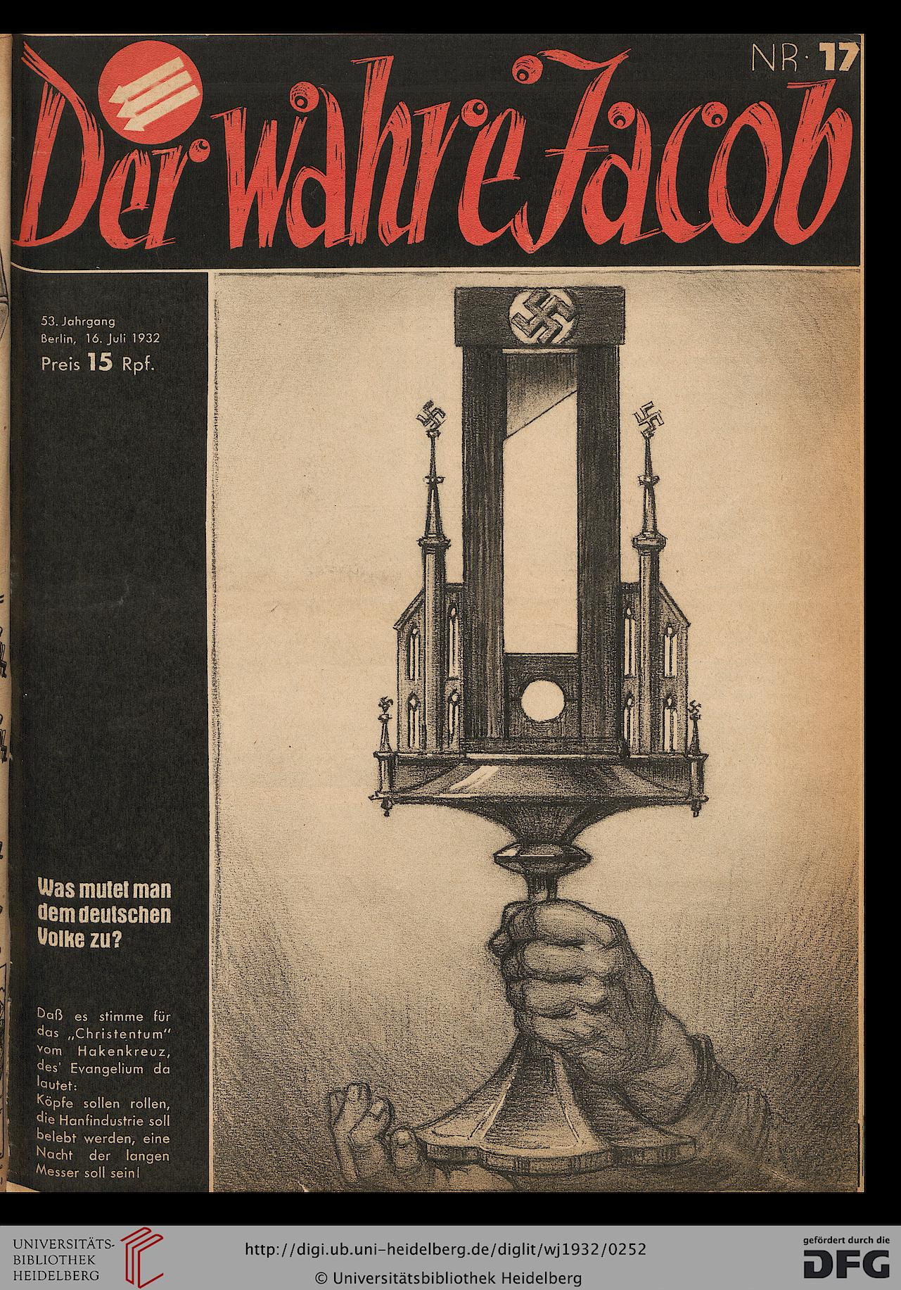 The title page of Der Wahre Jacob, Nr 17 (1932)